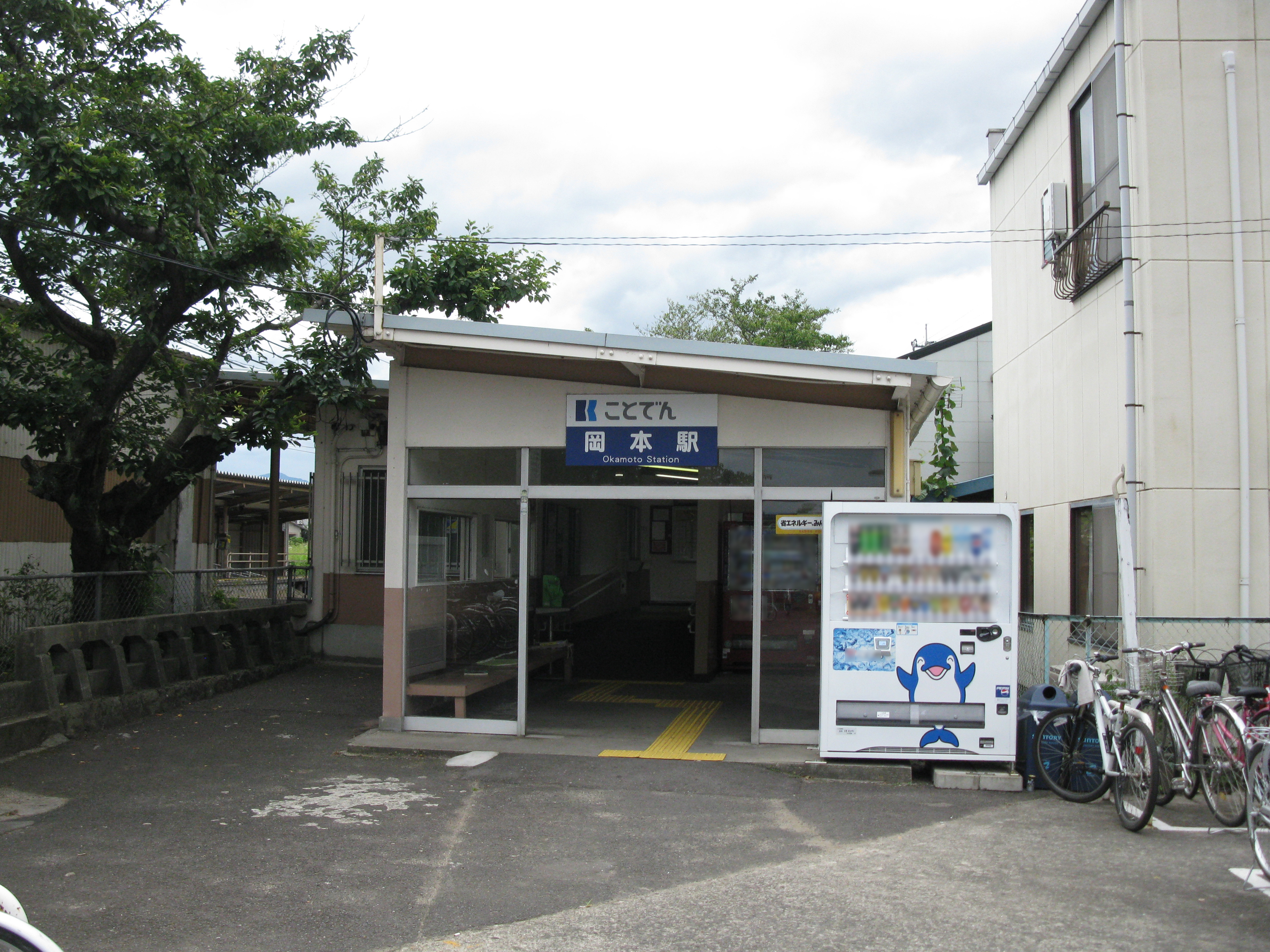 Okamoto Station building (Takamatsu-Kotohira Electric Railroad(Kotoden) Kotohira Line)